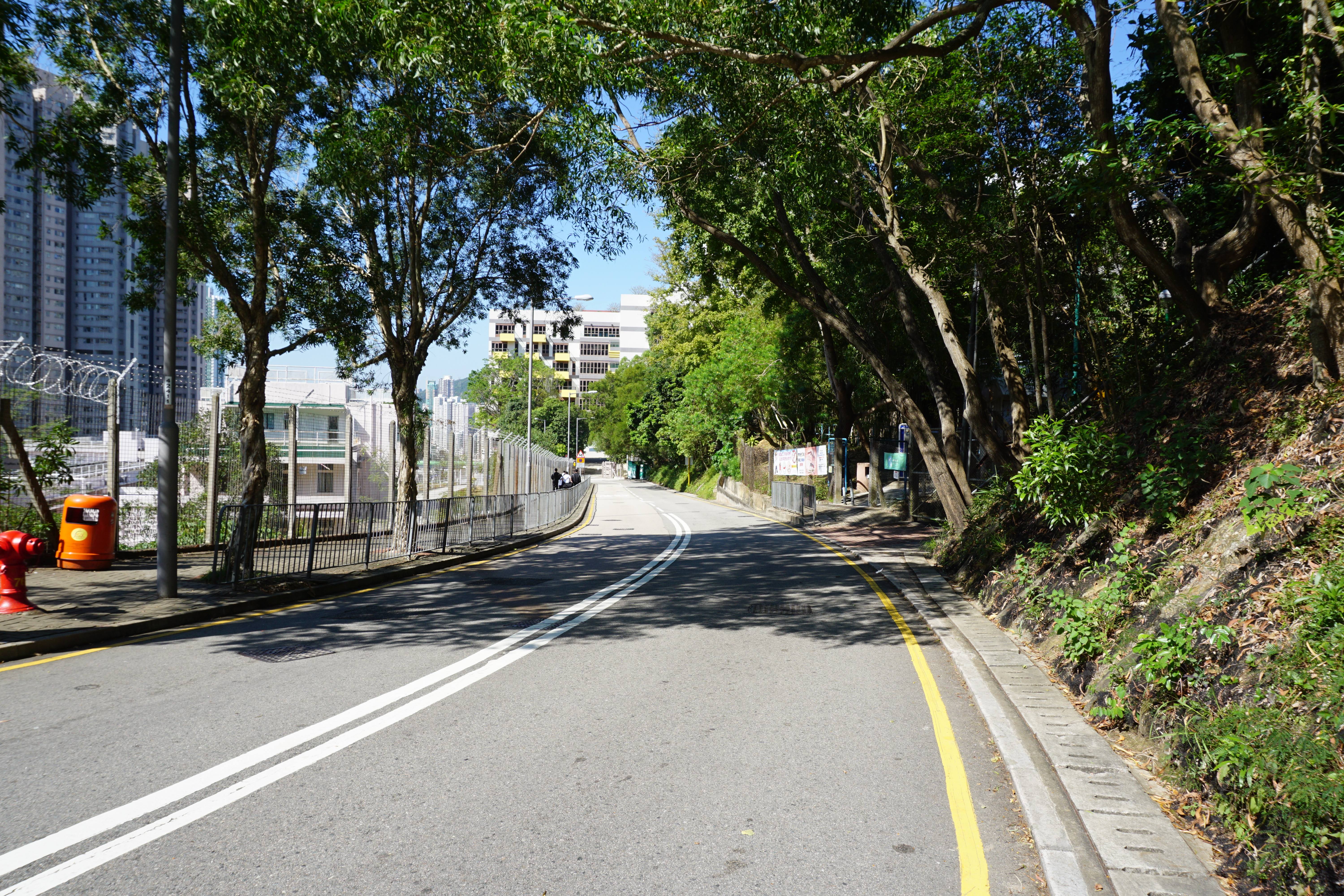 Nam Long Shan Road in Sham Wan, Hong Kong.